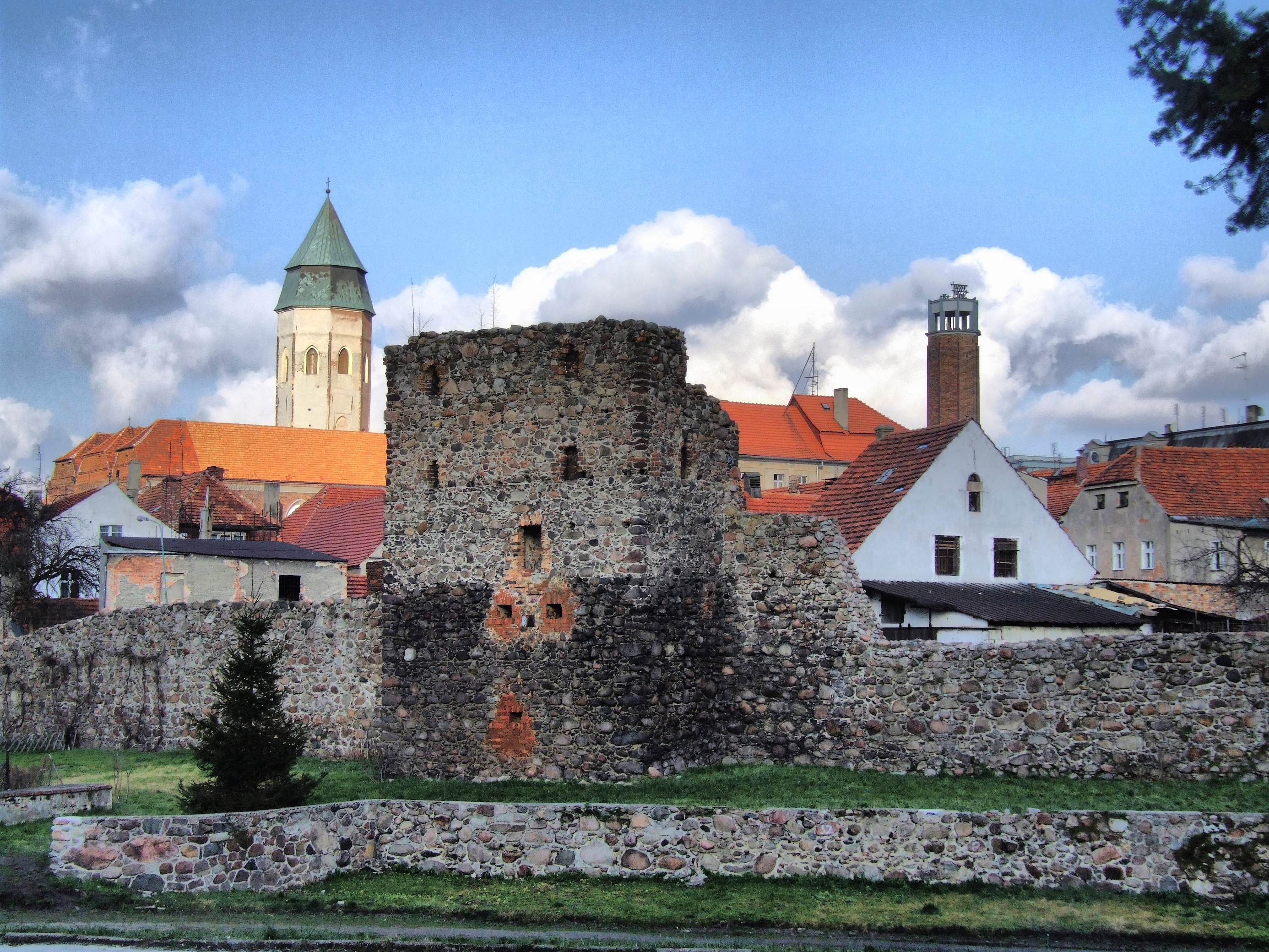 defensive wall of Kożuchów